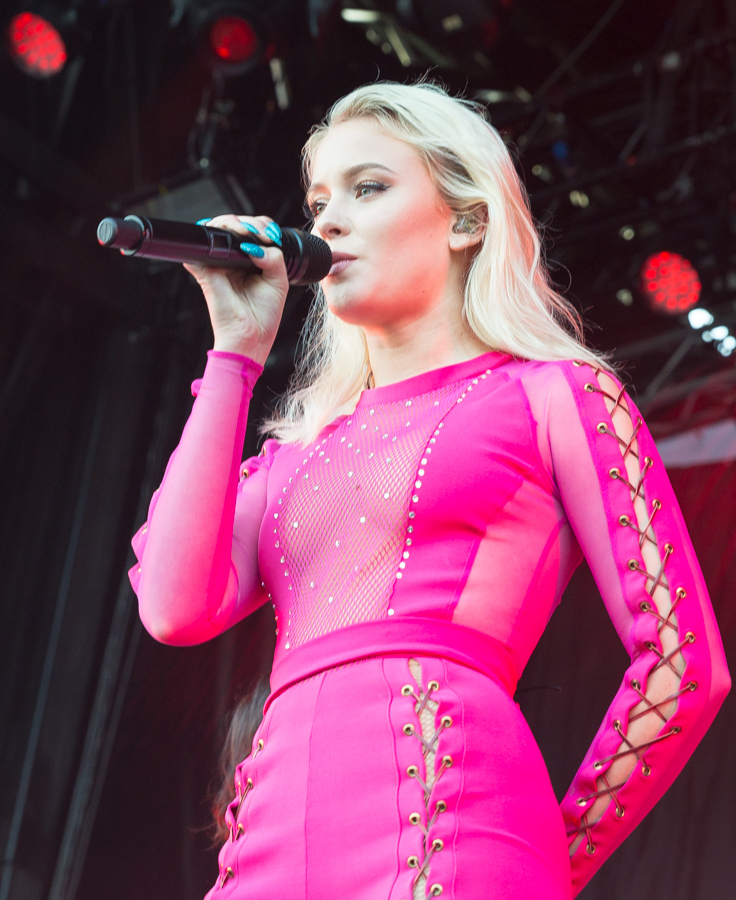 Zara Larsson at the minor stage during Stavernfestivalen in Stavern on 08. July 2016. Lineup:Zara Larsson (vocal)